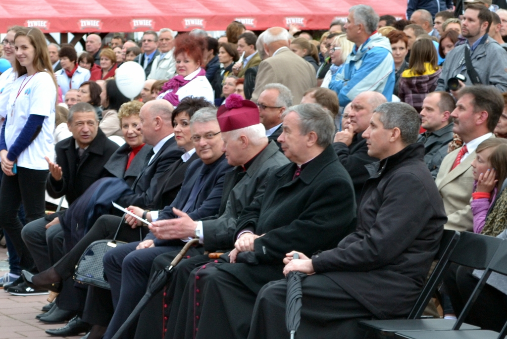 Thanksgivings for the canonisation of two Popes